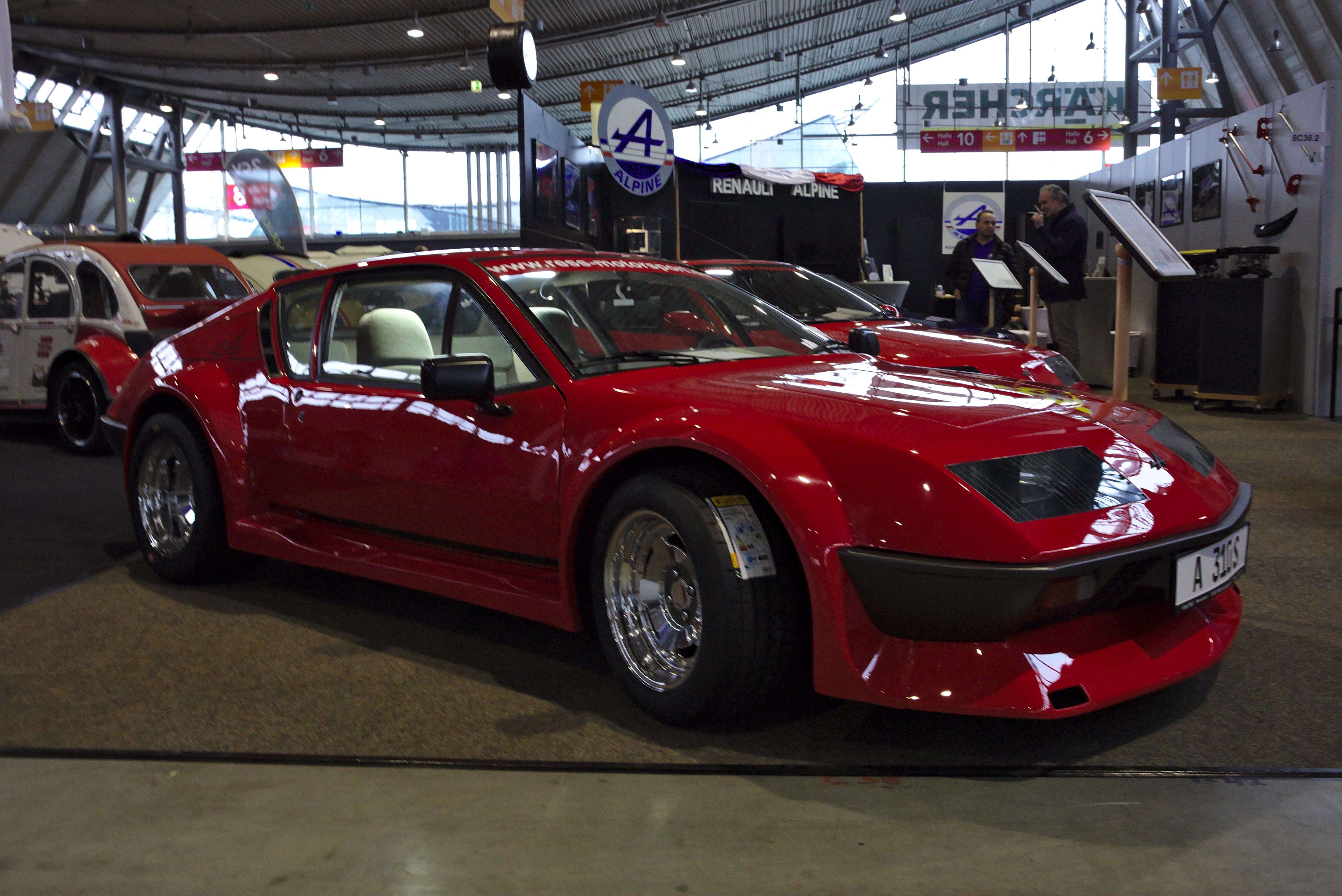 Alpine A 310S at Retro Classics 2018